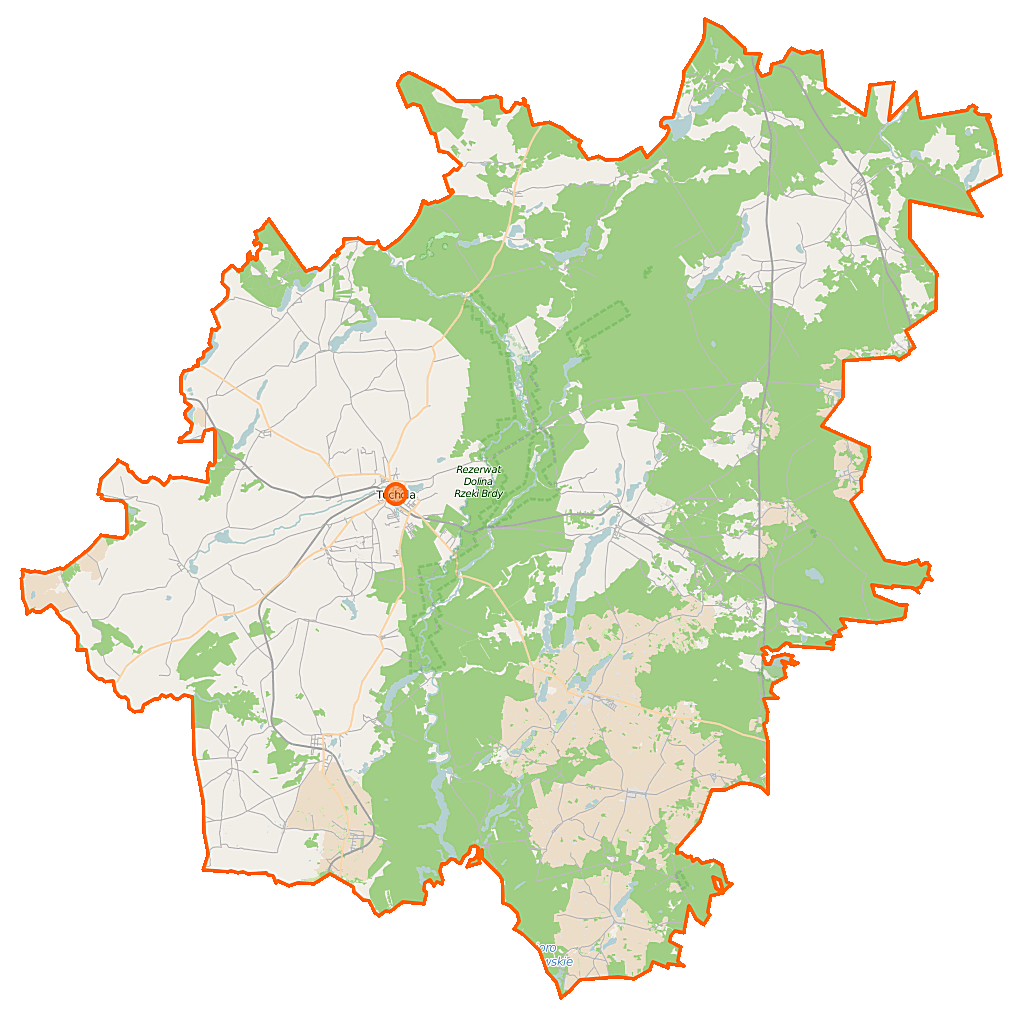 Map of Powiat tucholski, Poland This map of Powiat tucholski was created from OpenStreetMap project data, collected by the community. This map may be incomplete, and may contain errors. Don't rely solely on it for navigation. Border coordinates53.788917.5877←↕→18.291553.3743